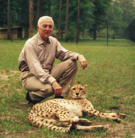 Howard Gilman poses with a cheetah.